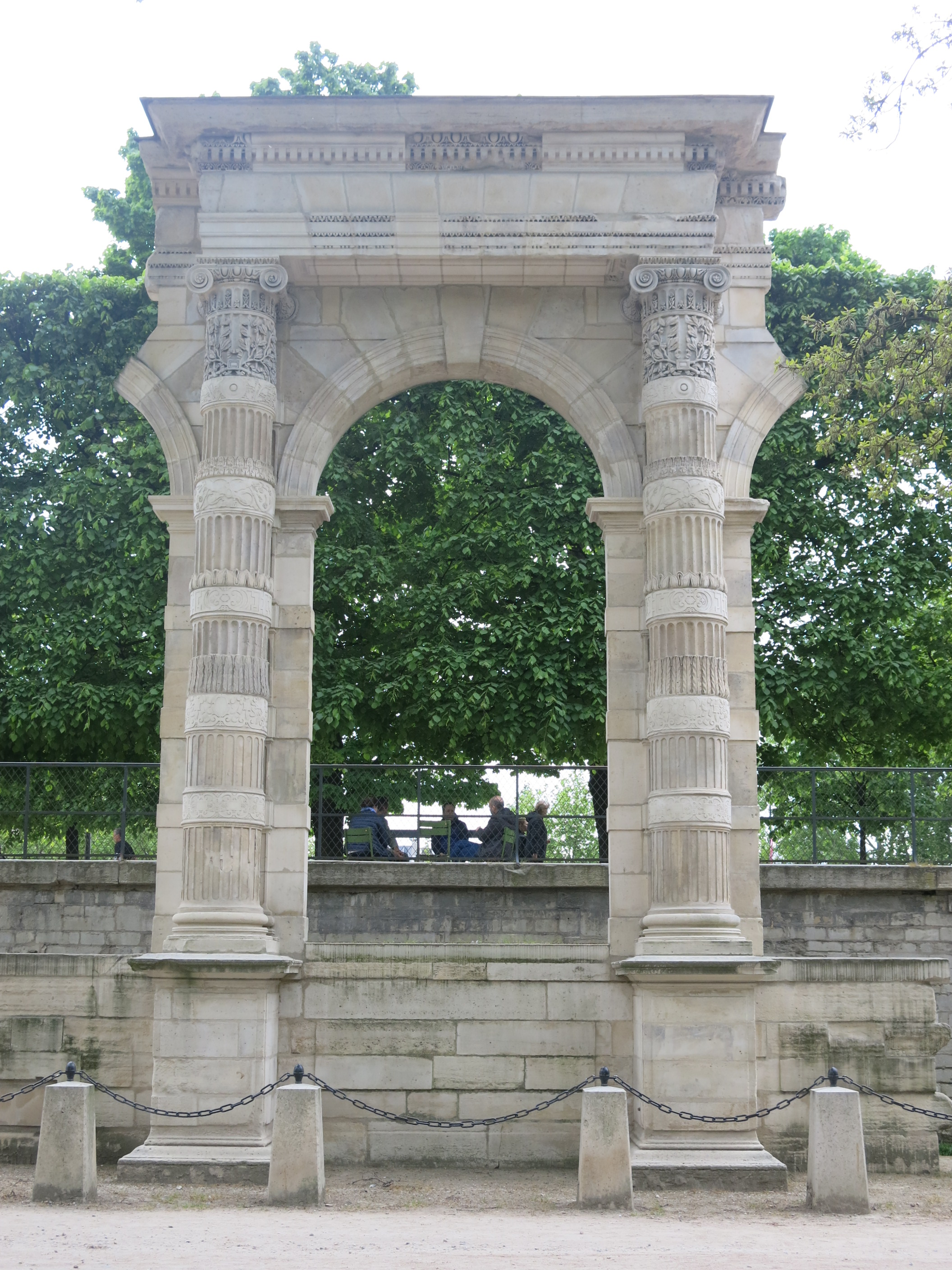 Remainings of arcades of Tuileries palace rebuilt in Tuileries garden, Paris 1st arrond. (France).